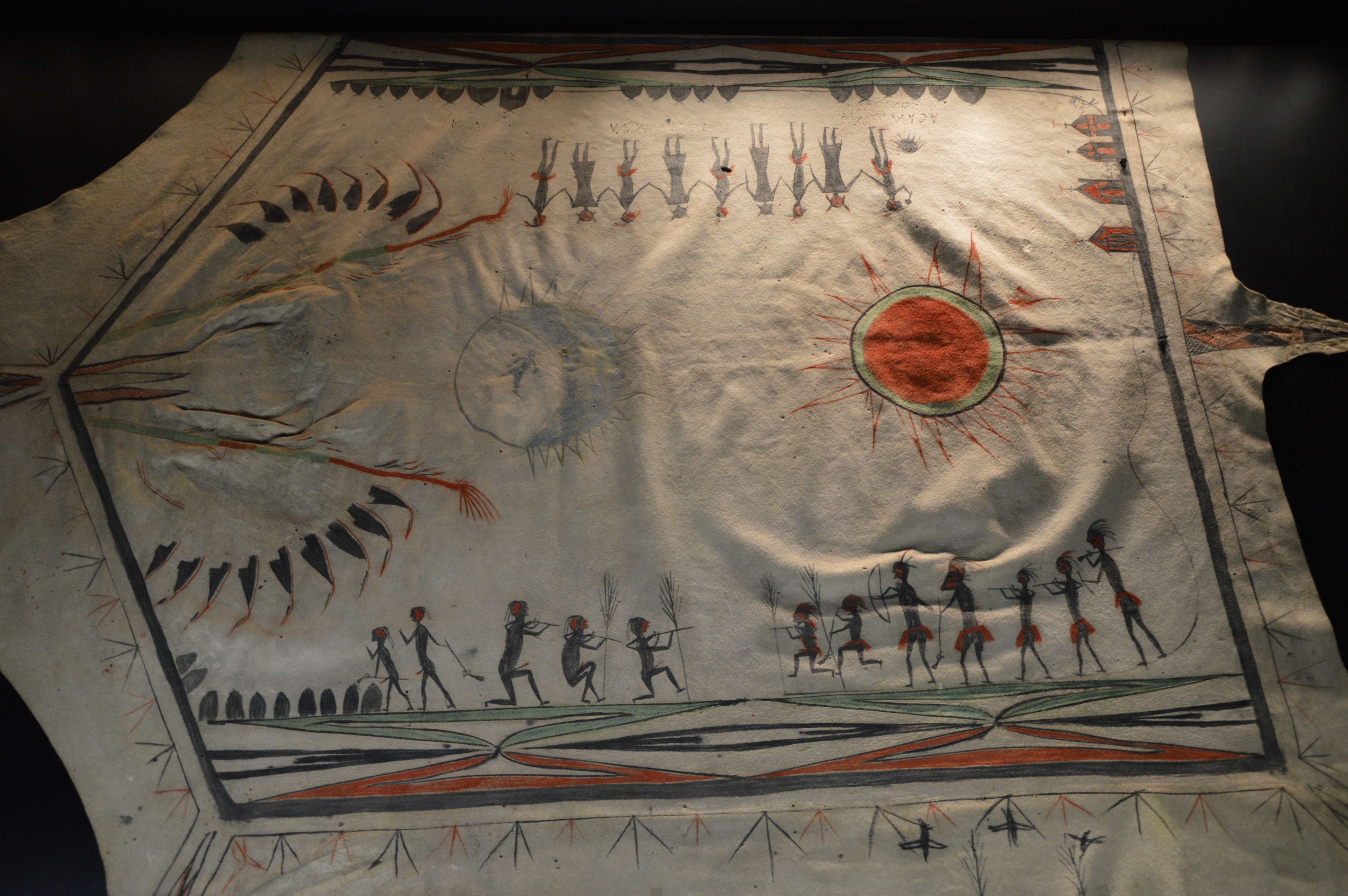 Robe called "the three villages." Quapaw people. United States, Arkansas. 18th century. Painted deer skin.